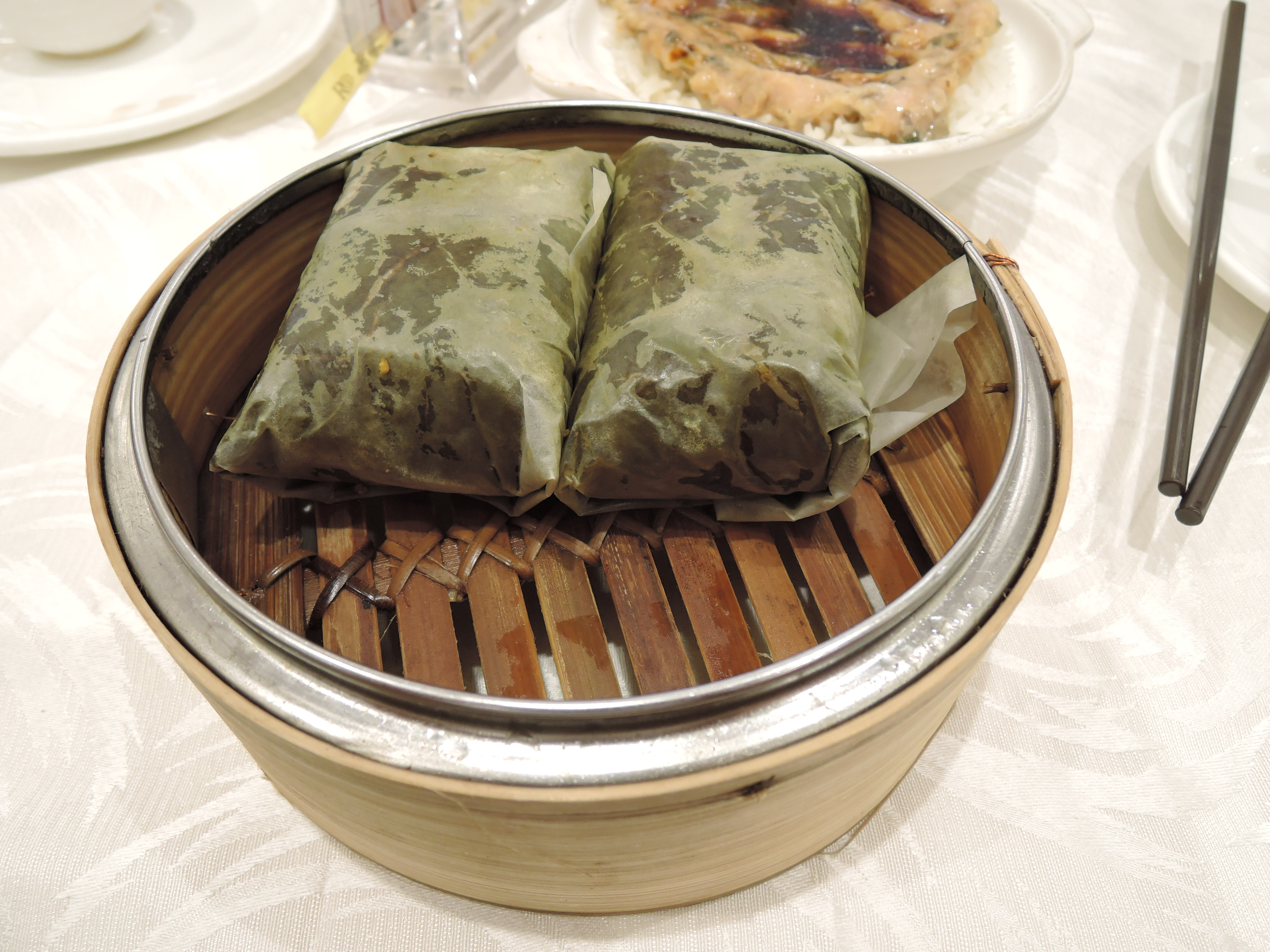 Two rice of minced meat dim sum for lunch at Chinese restaurant